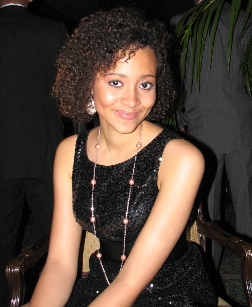 Aaryn Doyle taken in May 2008 at Stop 33 in Toronto